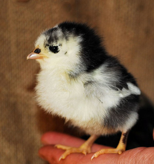 Australorp chick